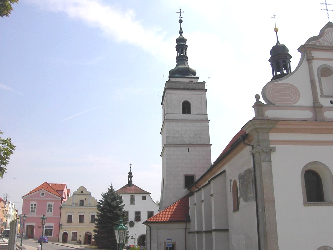 The church on the square in Horšovský Týn